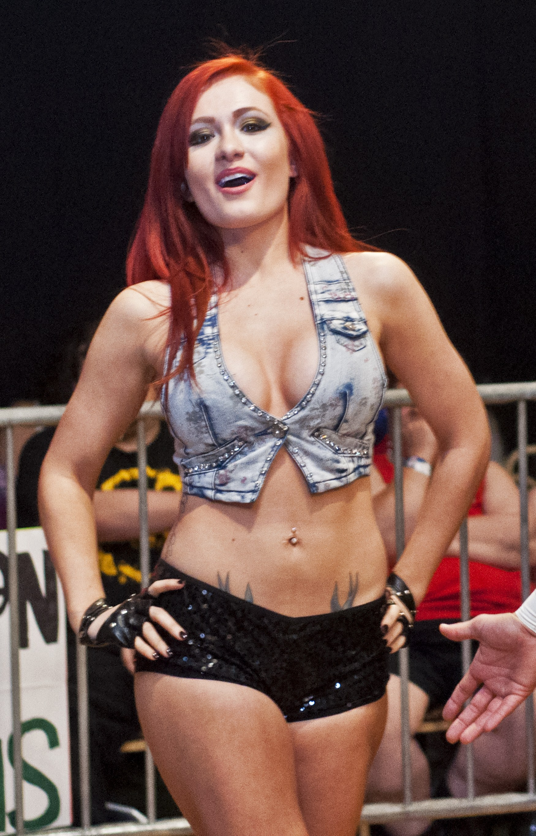 Scarlett Bordeaux at AAW's Bound By Hate event in 22 June 2012.